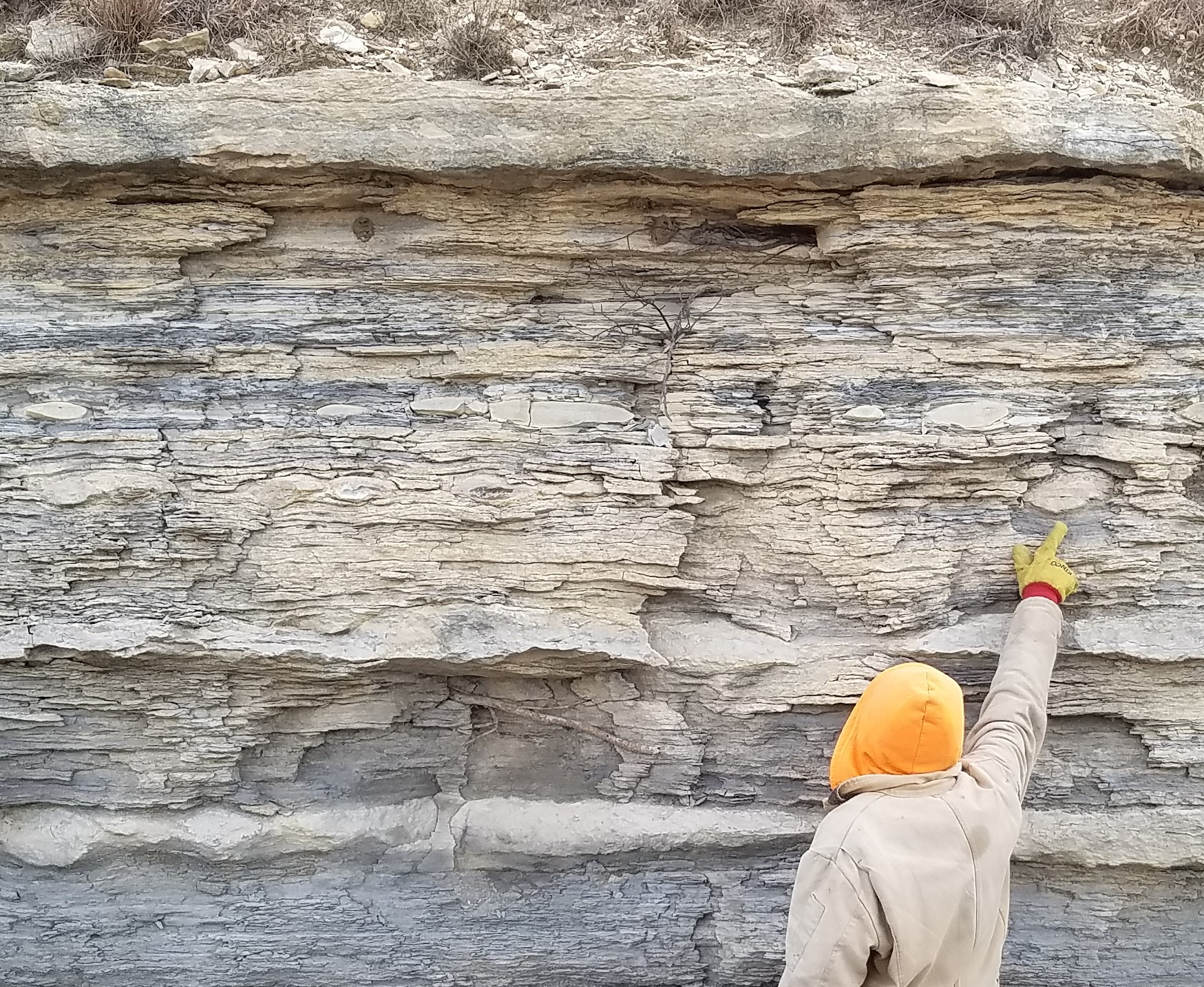 Shellrock bed, top bed of the Jetmore Chalk, at the top of the photograph. Note the many thin parting beds in the whiter Shellrock bed. The figure is pointing to the discoid limestone concretions in the shale, which are markers for the thick Shellrock bed above.